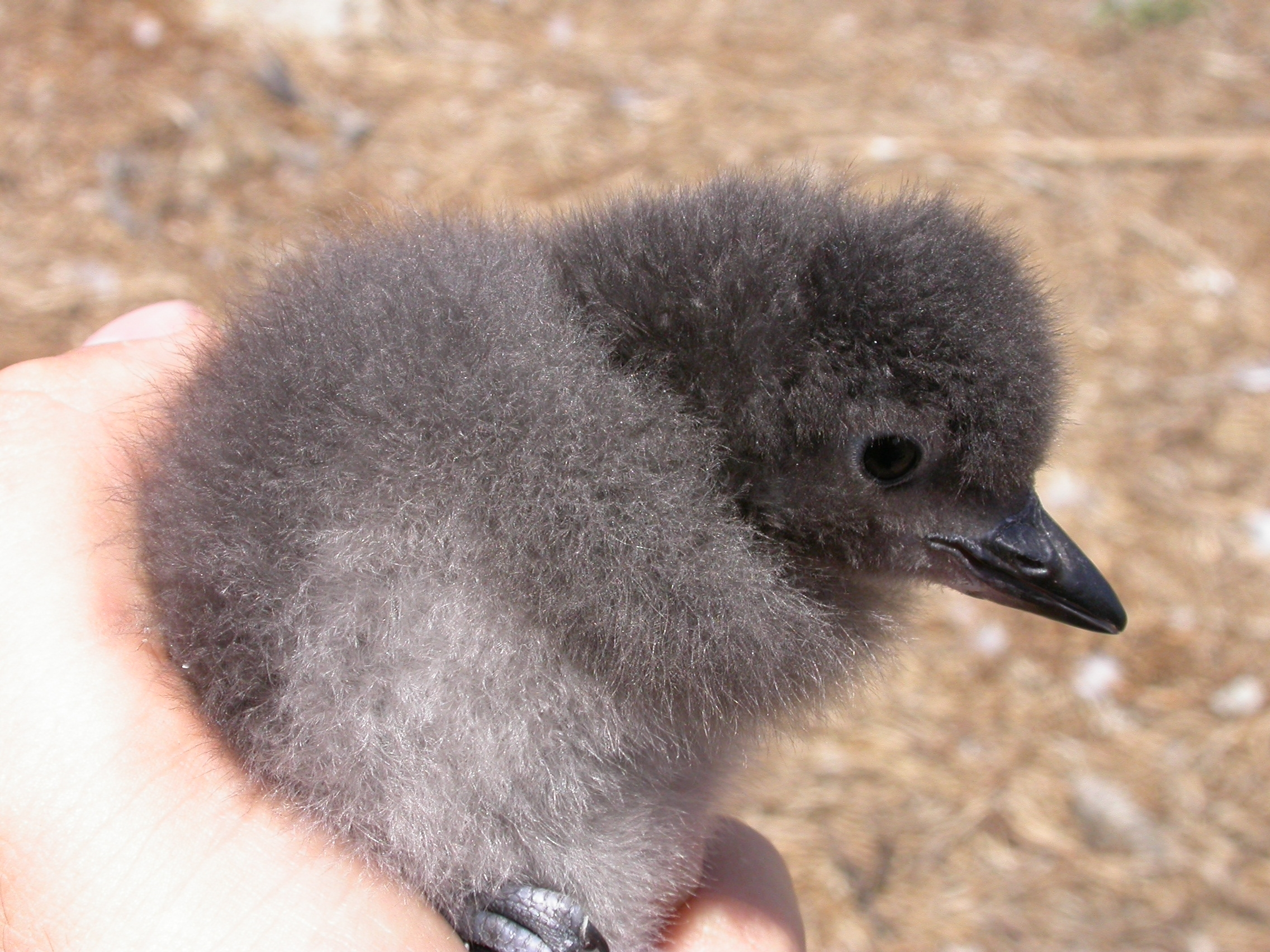 Cassin's auklet chick being handled by researcher, photo taken in 2003 on Farallon Islands.